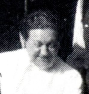 Crew of movie Das Wachsfigurenkabinett having rest break. From the left Wilhelm Dieterle, ?. Huber, E.A. Dupont, Fritz Maurischat, John Gottowt, Lore Sello, and on whitehorse in the right Leo Birinski.